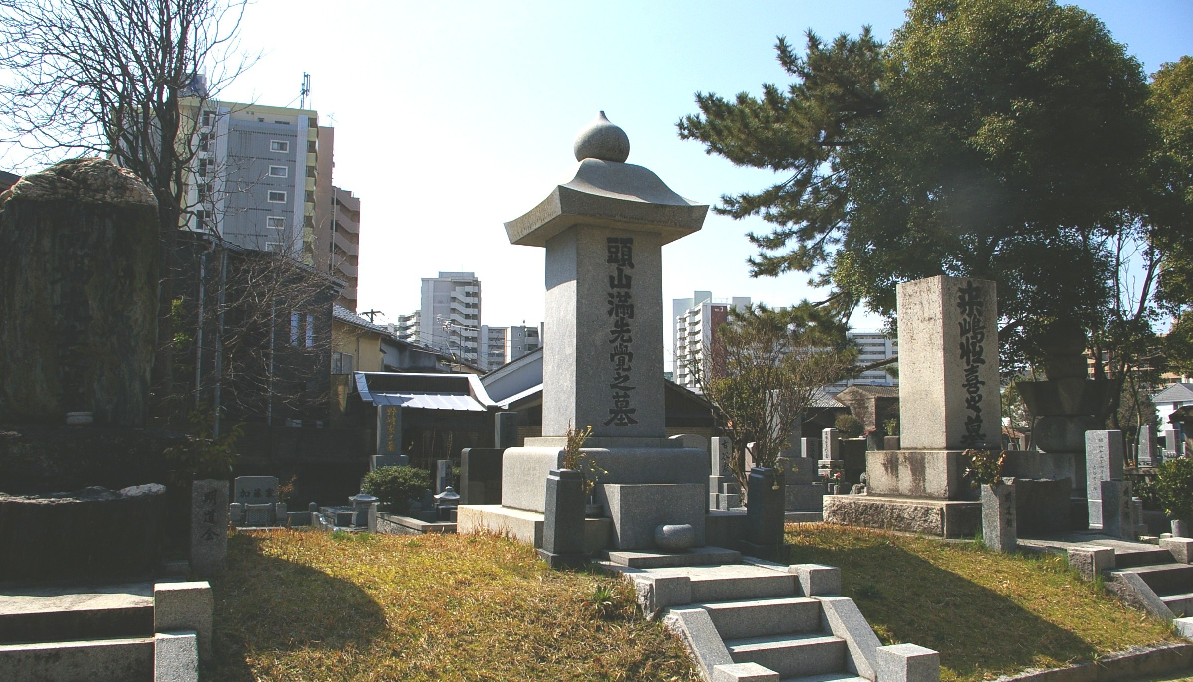 Fukuoka